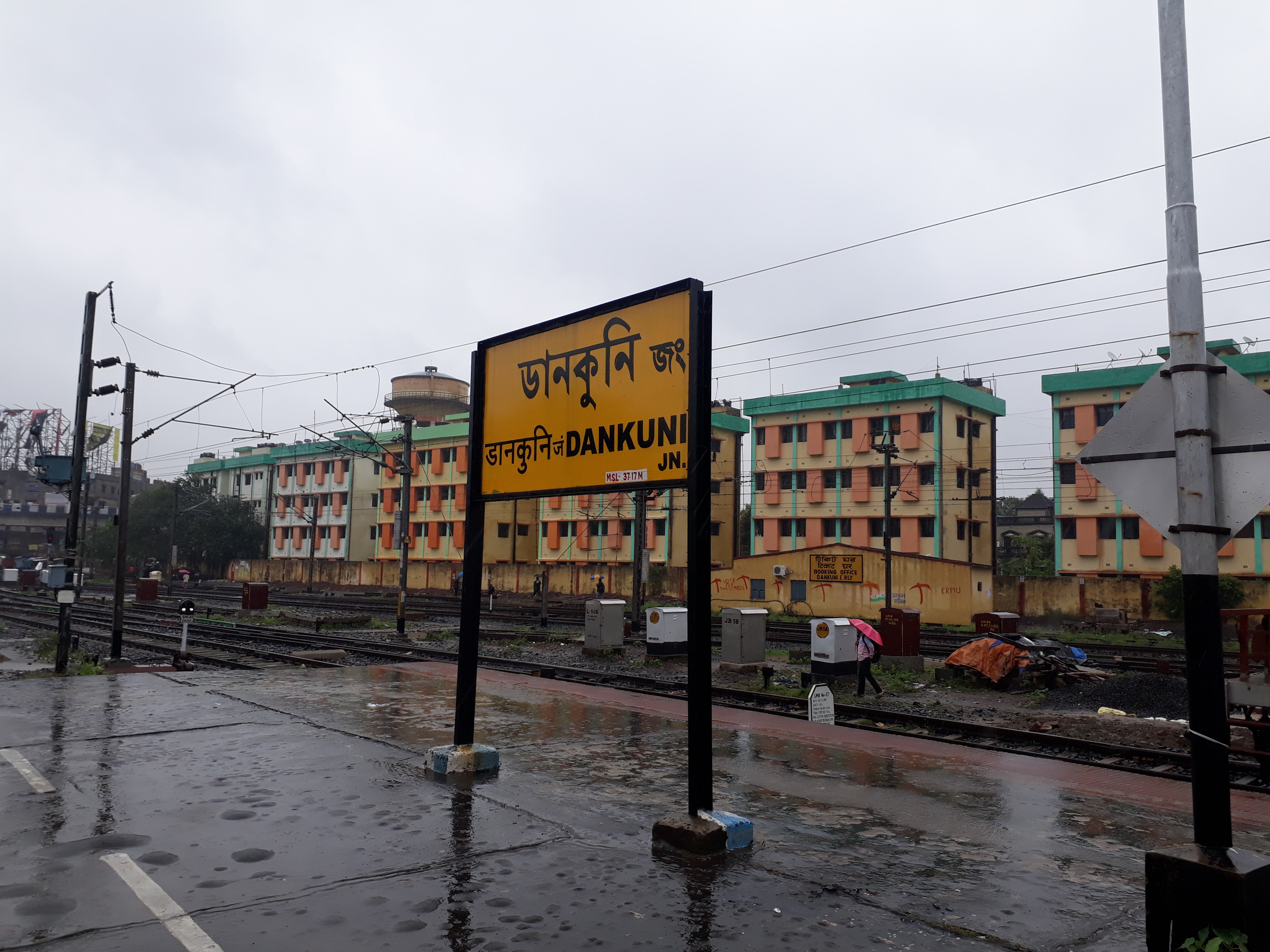 Dankuni railway station in Howrah-Bardhaman Cord line and Sealdah Dankuni branch line, Howrah district, West Bengal